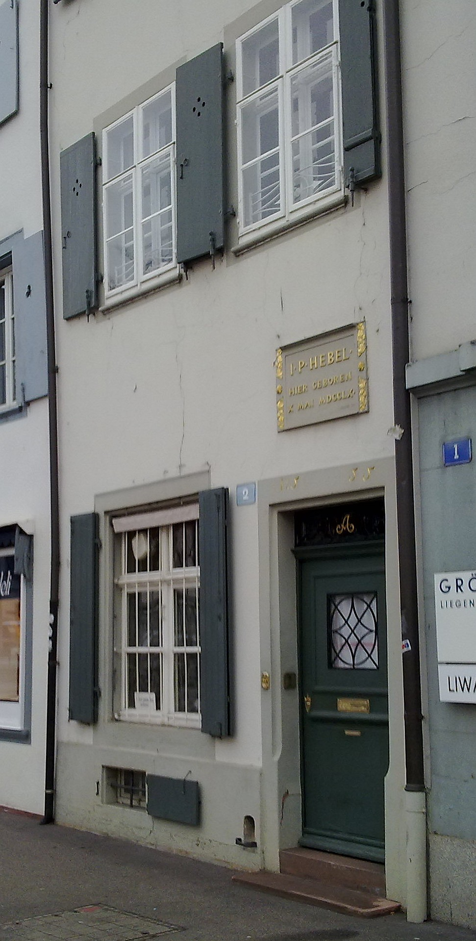 Birthplace of Johann Peter Hebel in Basel at Totentanz 2. Cropped and sharpened version.